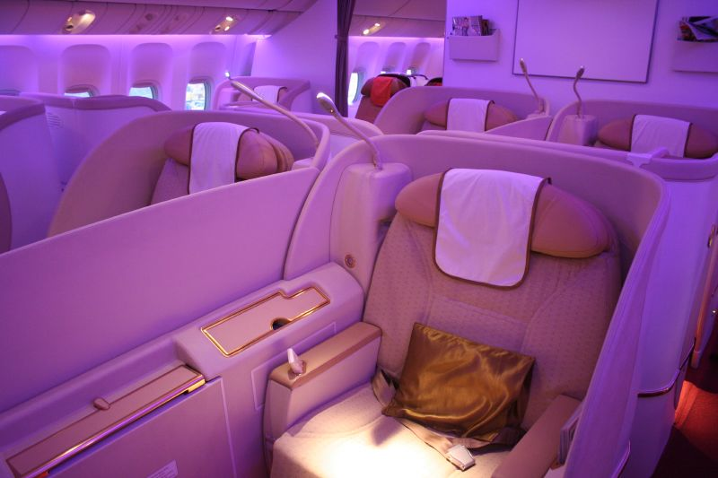 The first class section of Air India's B777-200LR Update: Shot by my colleague Krishna with his Canon 350D